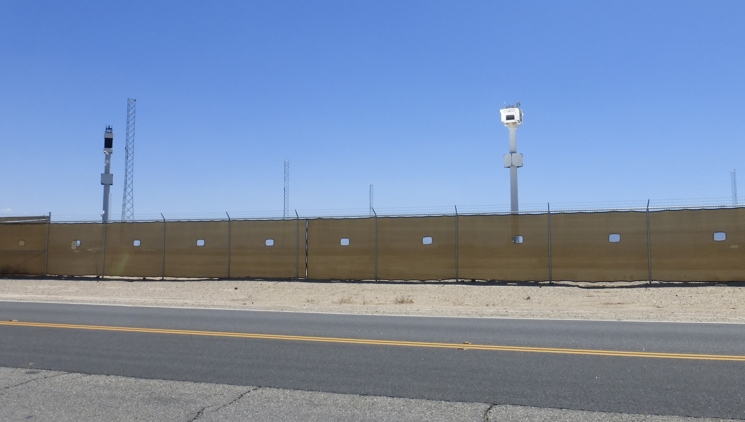 The site of Sierra SunTower, a 5 MW commercial concentrating solar power plant, in Lancaster, California.